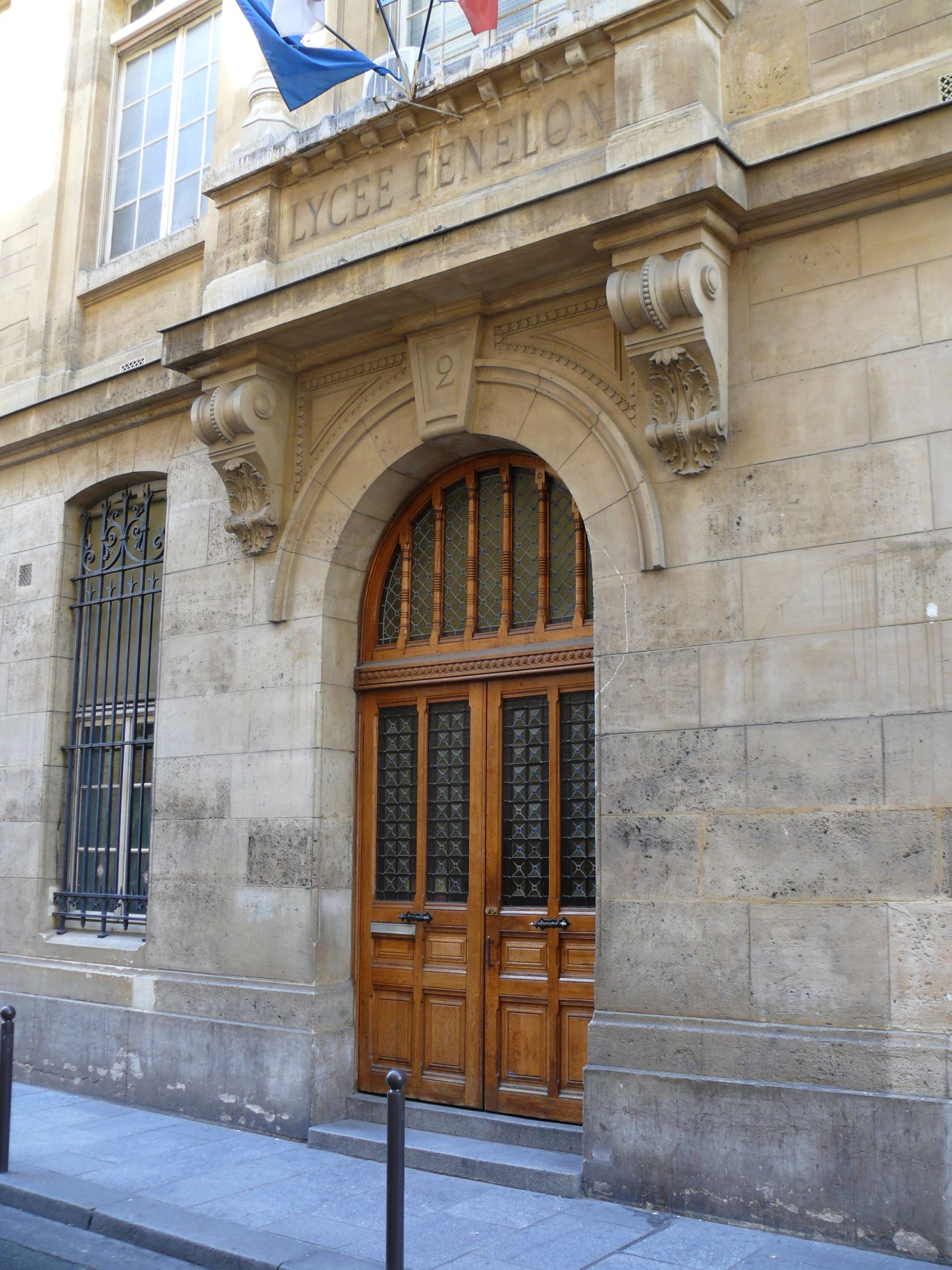 Door of the main building of the Lycée Fénelon, in Paris